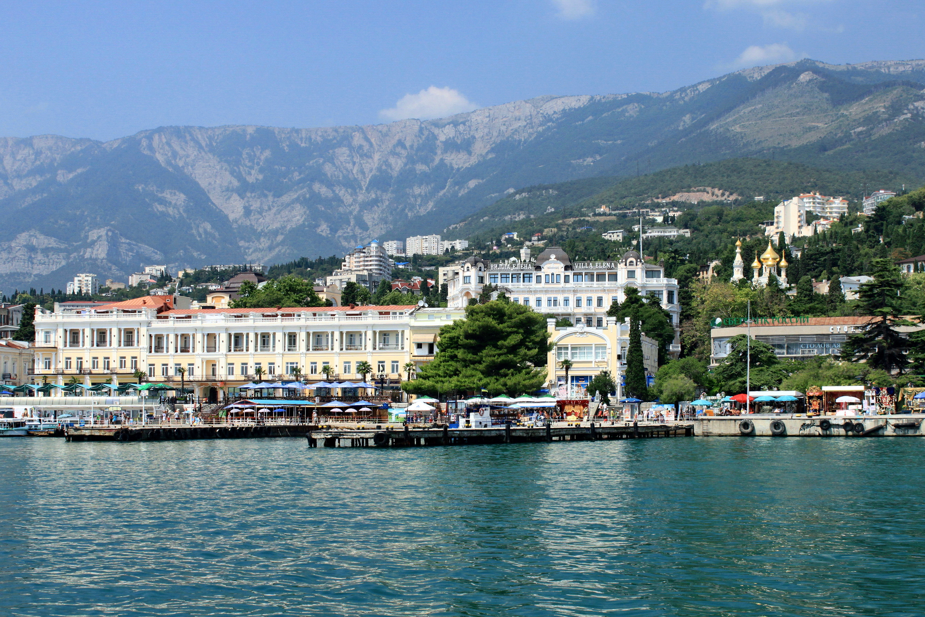 View of the city from the ship. Yalta, Crimea.